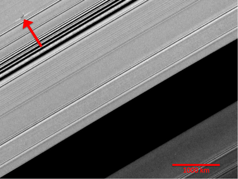 A propeller-shaped structure created by an unseen moon is brightly illuminated on the sunlit side of Saturn's rings in this image obtained by NASA's Cassini spacecraft. The moon, which is too small to be seen, is at the center of the propeller structure visible in the upper left of the image, near the Encke Gap of the A ring (marked with a red arrow in the annotated version). The A ring is the outermost of Saturn's main rings.